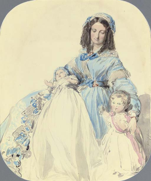 Princess Clémentine, with her two eldest sons, Philip and Augustus by Franz Xaver Winterhalter (auctioned)